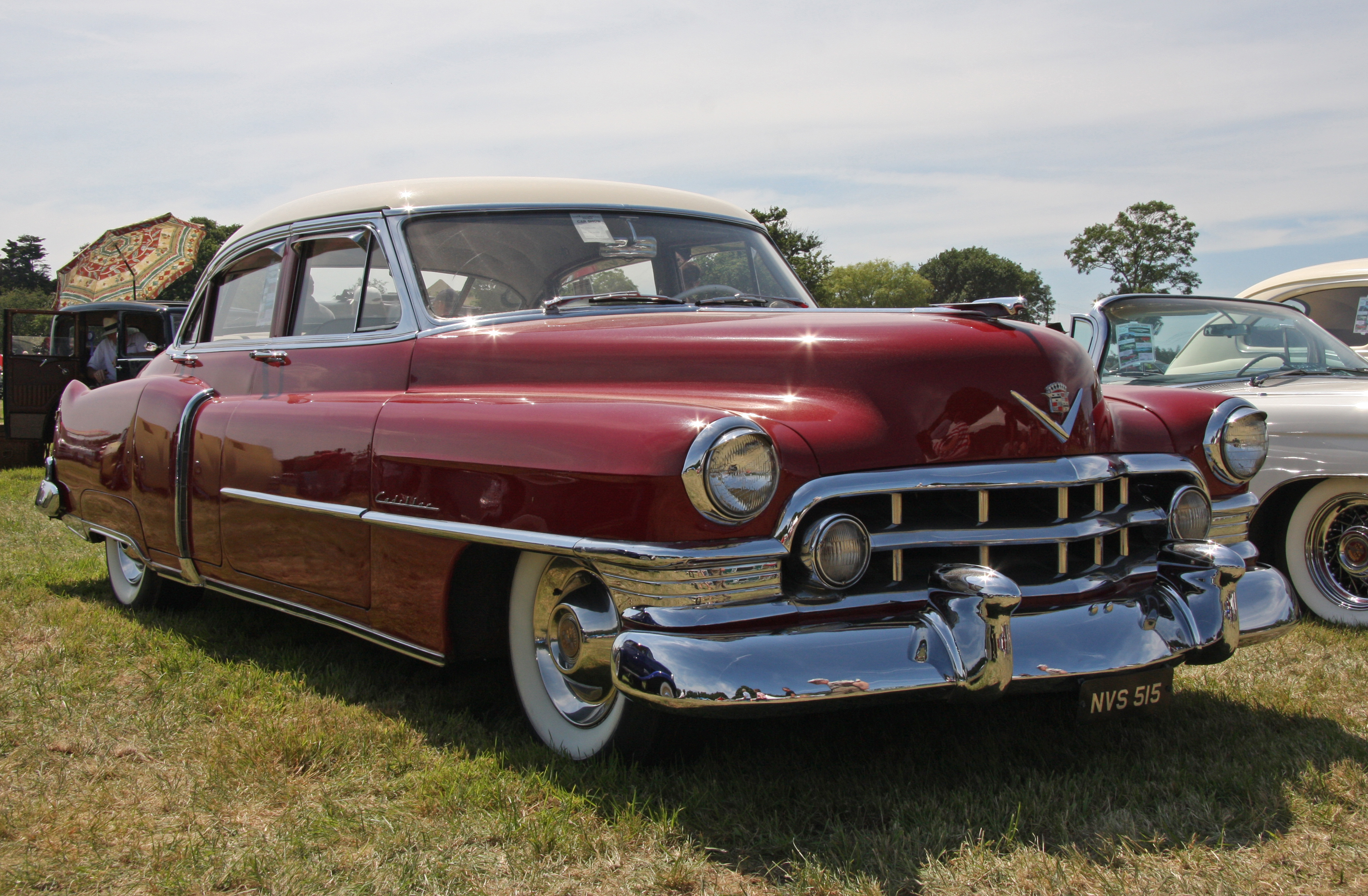 Cadillac Fleetwood